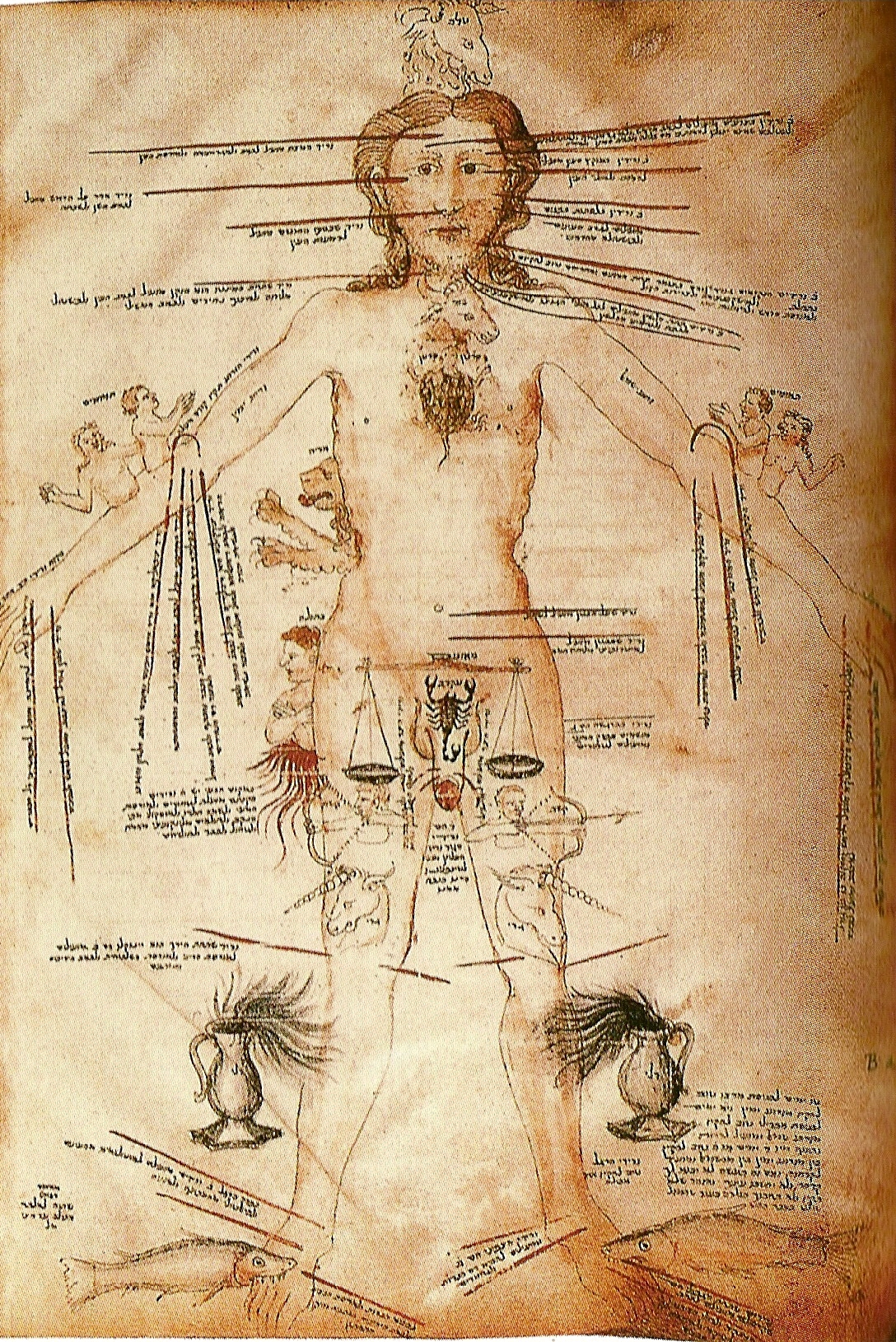 Manuscript of an 14th century Hebrew book describing the influences of astrological signs to specific human body parts.